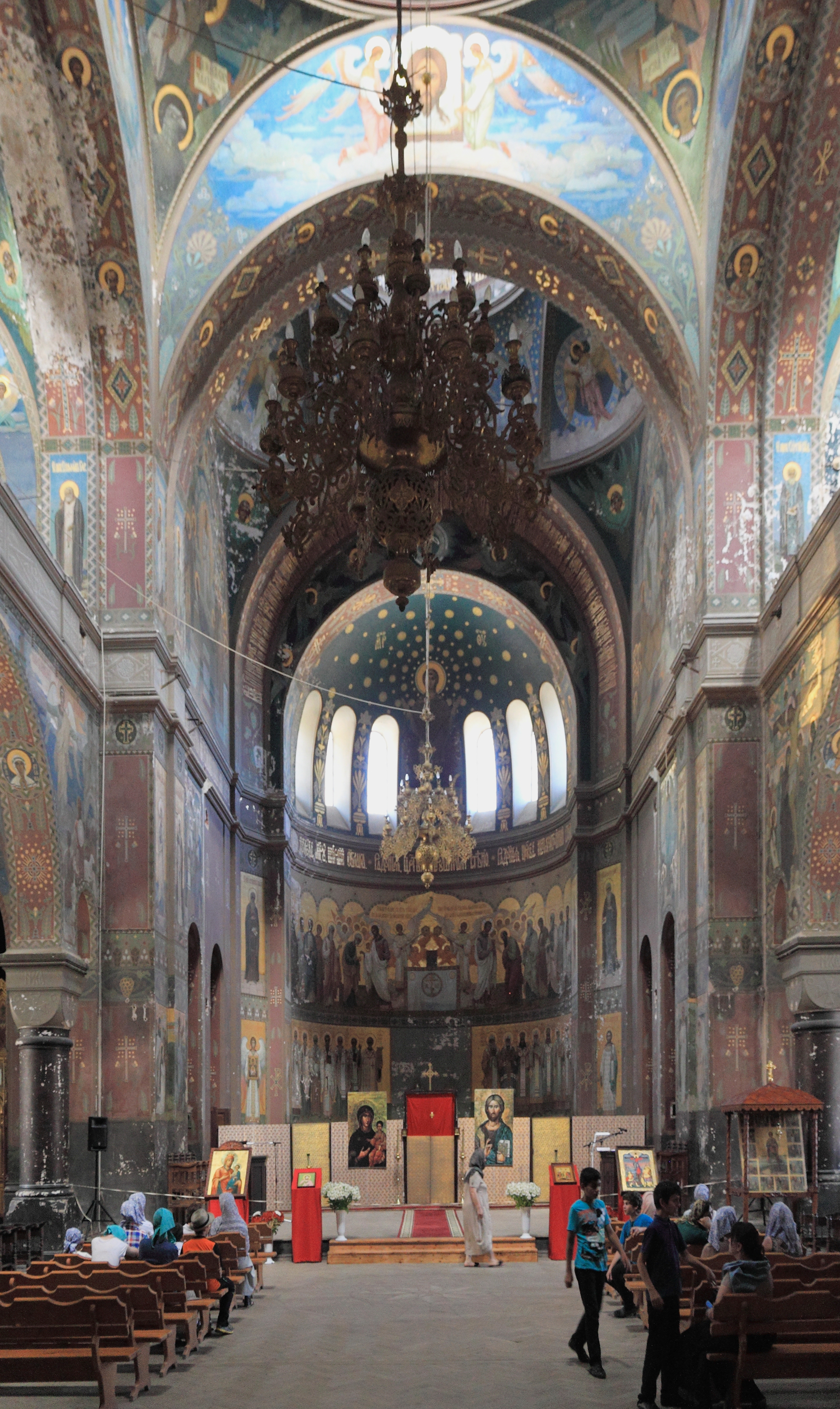 Interior of Monastery of St. Apostle Simon the Zealot. New Athos, Gudauta District, Abkhazia.